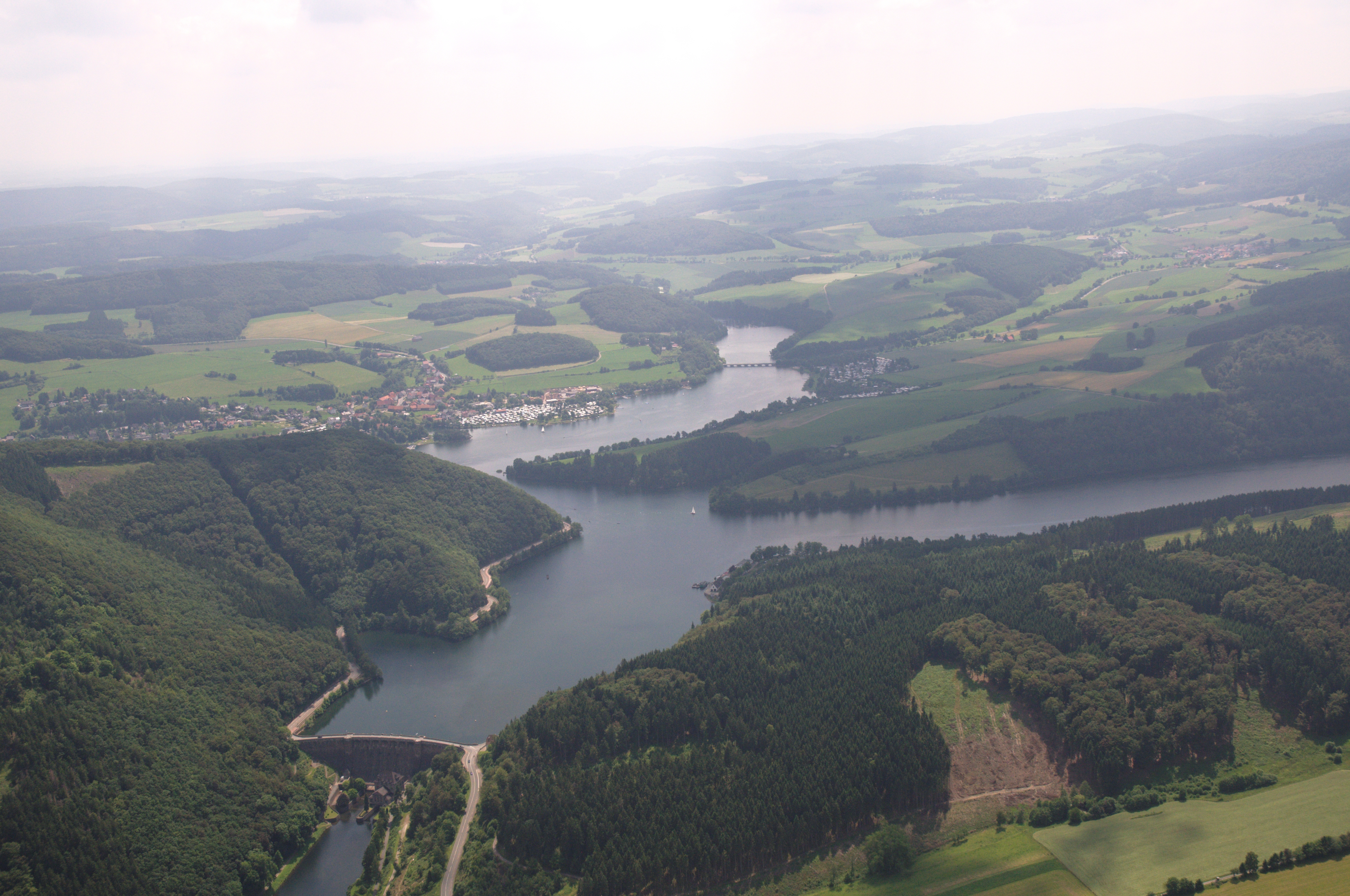 Fotoflug Sauerland-Ost: Diemelsee The making of this document was supported by the Community-Budget of Wikimedia Germany.